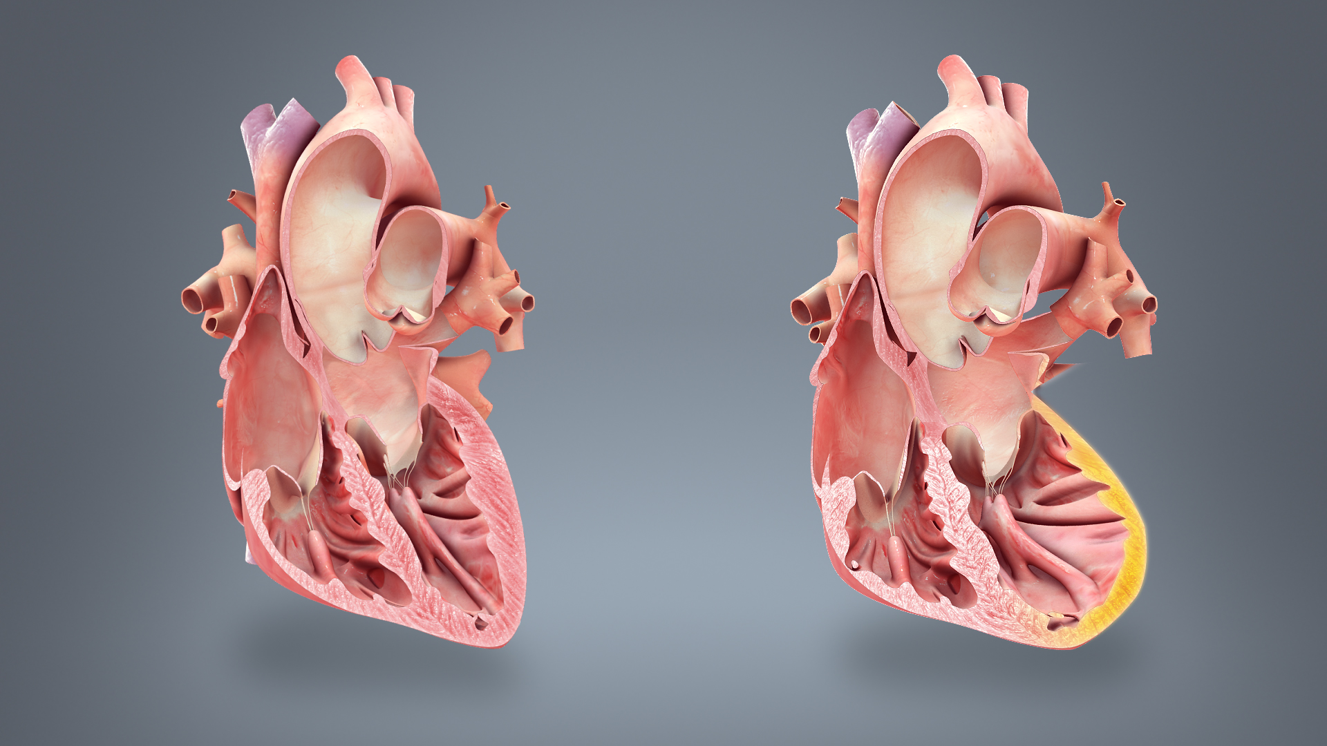 3D medical animation still showing normal heart(L) and heart faliure(R) weakened heart muscle.